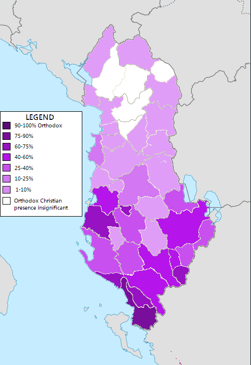 This map represents the distribution of Orthodox Christians in Albania around 1900, based on censuses from 1877, 1908 and 1918, and drawn on the modern day provinces (except that Kiri is separated from Shkodra, as it was in 1918) . Note that because it incorporates data from different dates and that province boundaries have changed, a bit of estimation is involved.